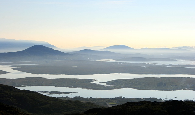 Inishnee from Errisbeg Quintessential Connemara... The peak to the left is, I believe, Cashel Hill (310m). The sliver of land in the middleground is Inishnee, an island connected to the mainland by a causeway. This photograph was taken at about 8.30am from Errisbeg (299m).